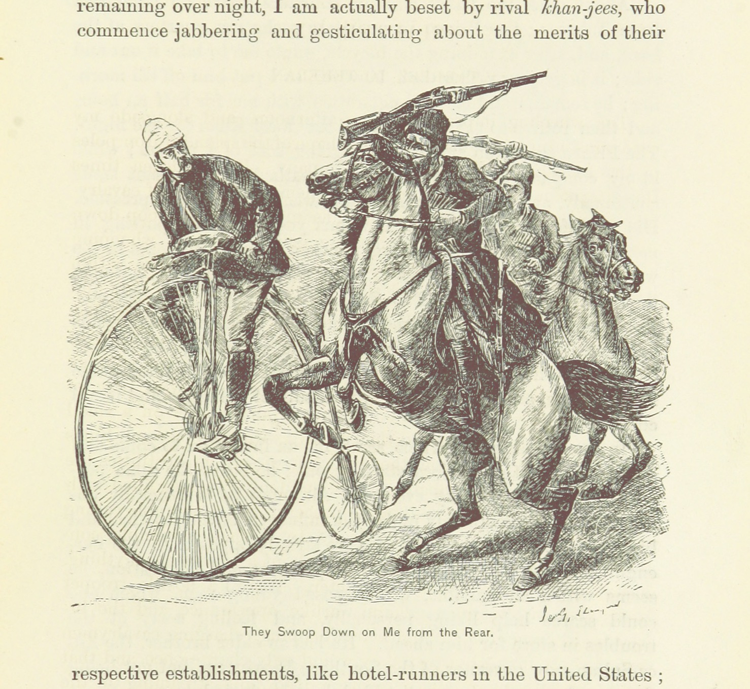 Image taken from: Title: "Around the World on a Bicycle ... From San Francisco to Teheran. With ... illustrations. [With preface by T. W. Higginson.]" Author: STEVENS, Thomas - Bicyclist Contributor: HIGGINSON, Thomas Wentworth. Shelfmark: "British Library HMNTS 10027.g.6." Page: 513 Place of Publishing: London Date of Publishing: 1887 Publisher: Sampson Low & Co. Issuance: monographic Identifier: 003500073 Explore: Find this item in the British Library catalogue, 'Explore'. Download the PDF for this book (volume: 0) Image found on book scan 513 (NB not necessarily a page number) Download the OCR-derived text for this volume: (plain text) or (json) Click here to see all the illustrations in this book and click here to browse other illustrations published in books in the same year. Order a higher quality version from here.